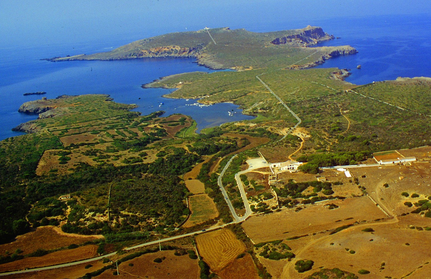 Aereal view of the Cap de Cavalleria Ecomuseum, including Cavalleria Cape and the Port of Sanitja